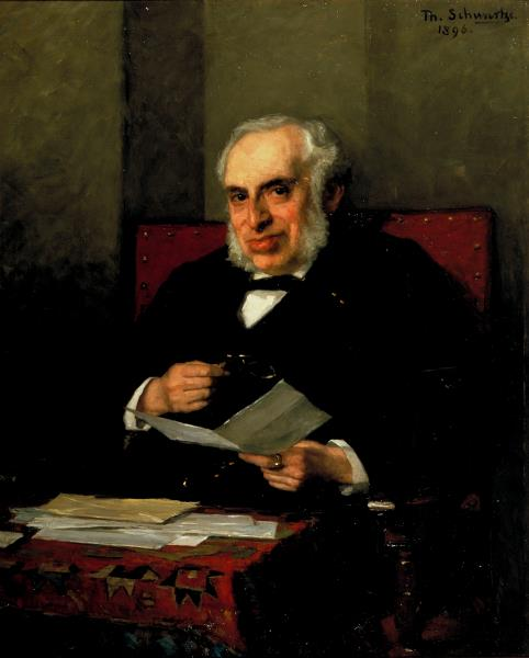 Portrait of Abraham Carel Wertheim